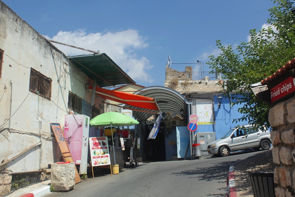 Bluegrund House